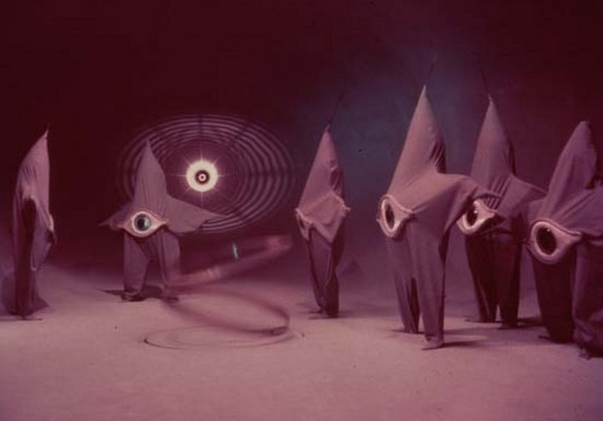 A screenshot of the public domain film Warning from Space showing the Pairan aliens in discussion.